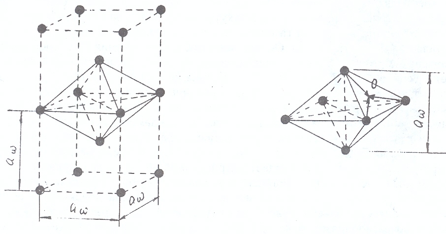 Связывающее звено кристаллической решётки